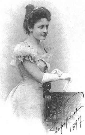 Princess Ekaterina Gruzinskaya-Raevskaya. 1897. Scanned from Дворянские роды Российской империи. Т. 3. Князья. Москва, "Ликоминвест", 1996